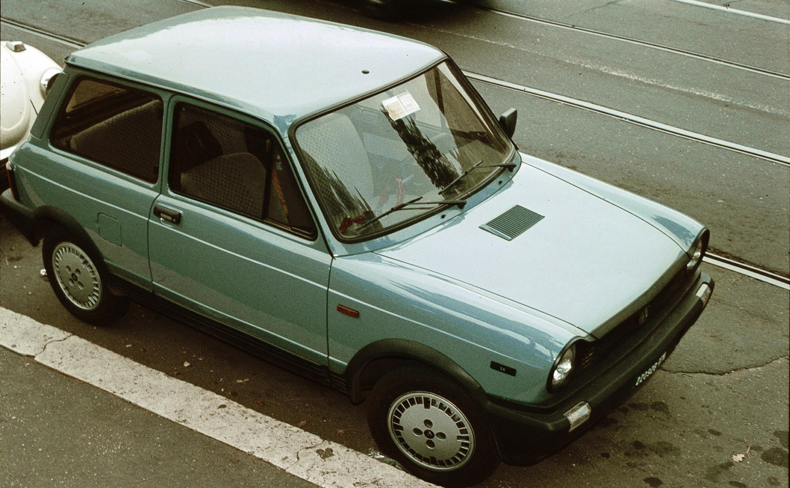 Autobianchi A112 LX (seventh series, 1984-1985) in Rome